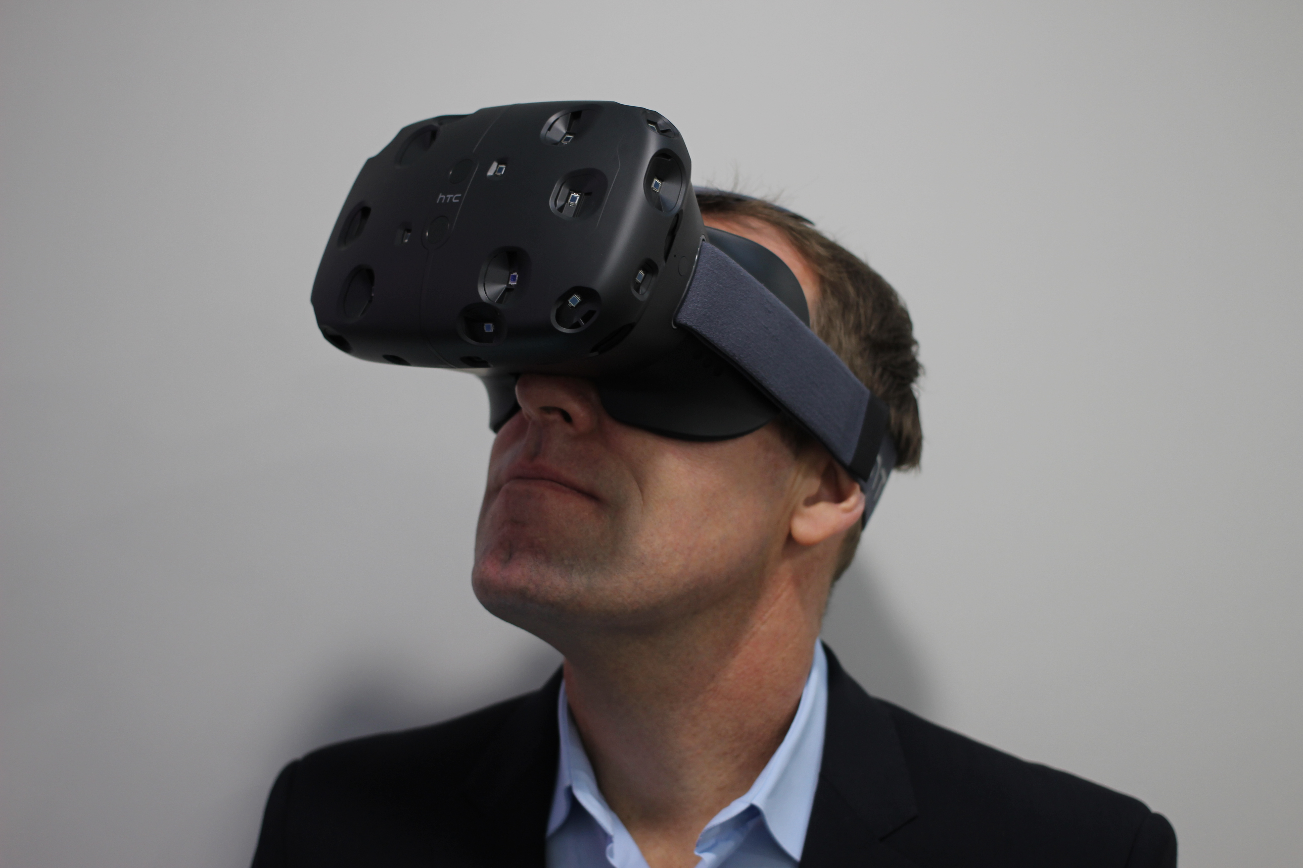 HTC executive director of marketing, Jeff Gattis wears the HTC RE Vive